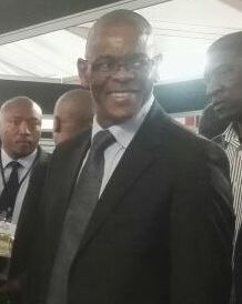 Free State Premier Ace Magashule at the Mangaung African Cultural Festival speaking to vendors at the event in October 2016.